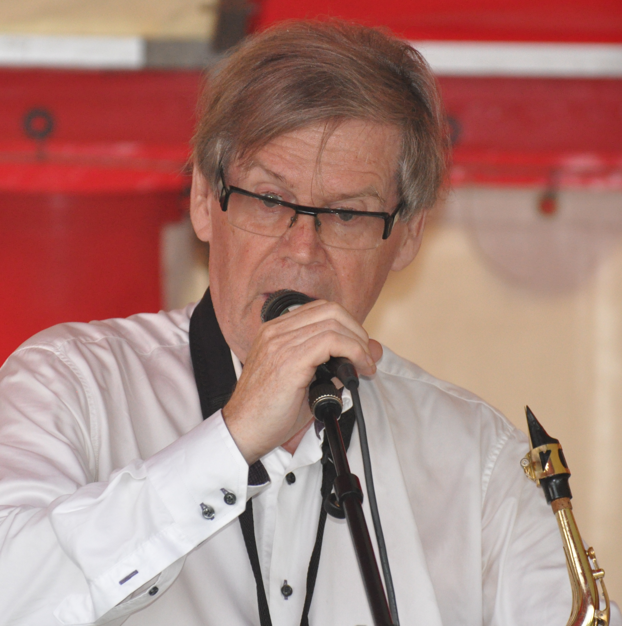 Finnish jazz musician Klaus Järvinen performing at Café Ursula on the Night of the Arts in Helsinki, 2011.